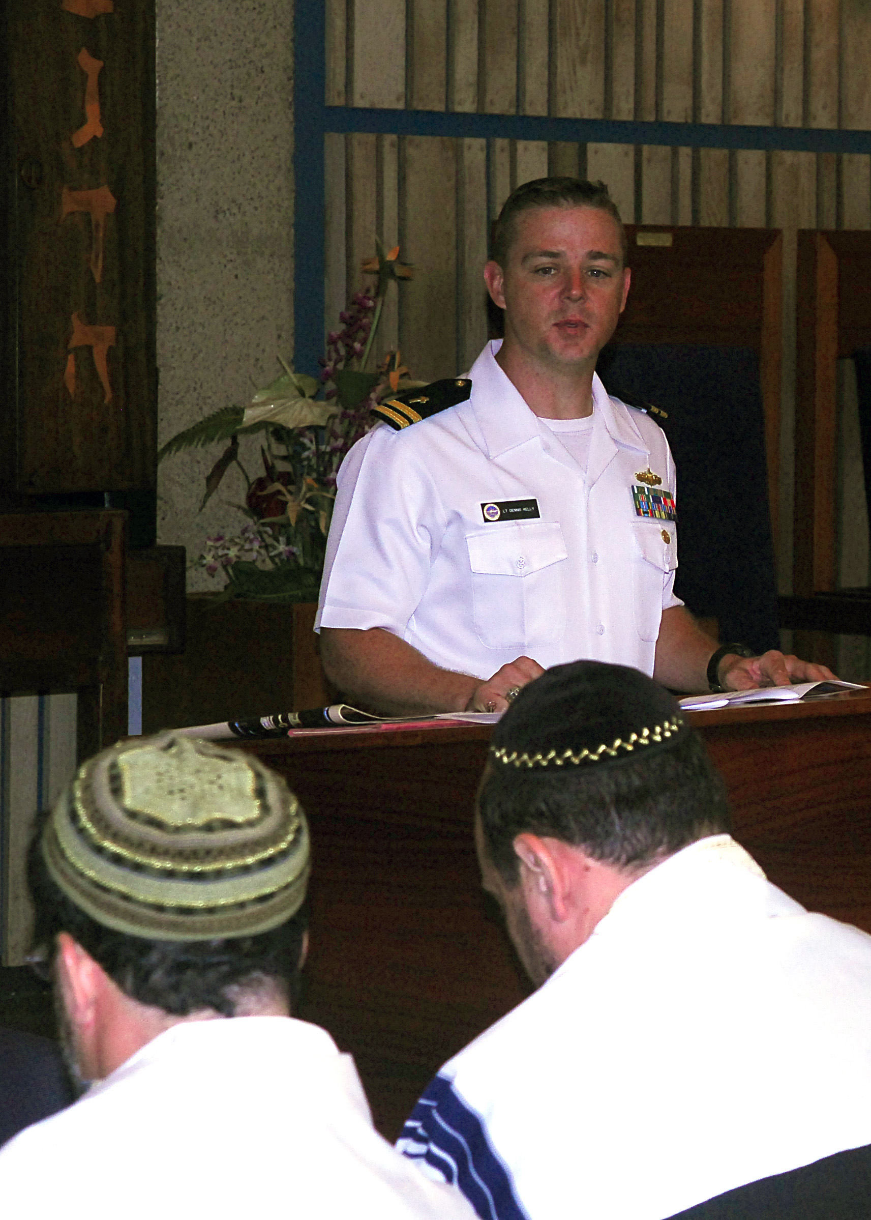 PEARL HARBOR (April 27, 2009) Lt. Dennis Kelly reads an excerpt of the Rev. Martin Niemöller's poem, First they came... during a Holocaust Days of Remembrance Observance service. The poem describes the dangers of political apathy and what could happen because of it. (U.S. Navy photo by Mass Communication Specialist 3rd Class Eric J. Cutright/Released)